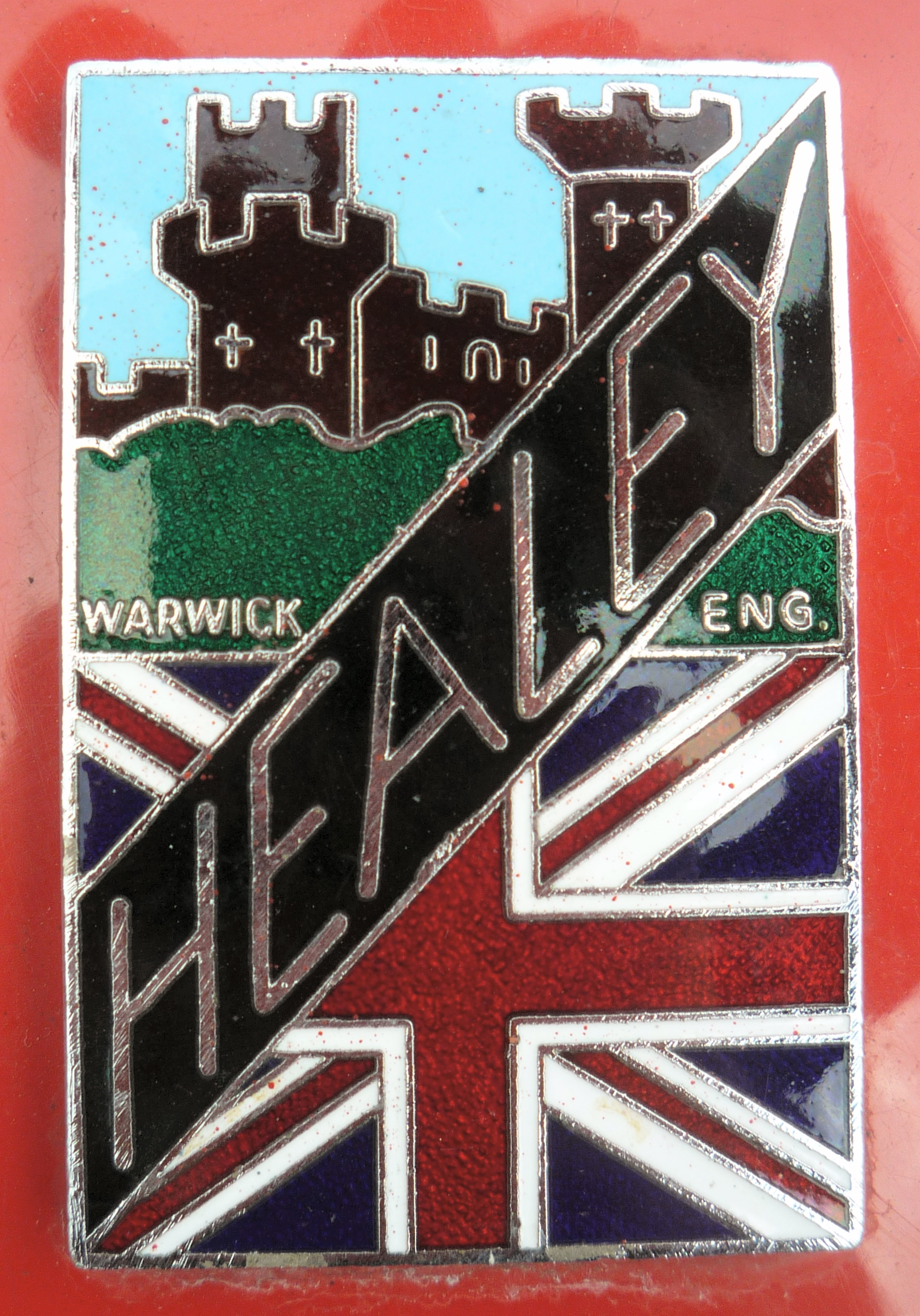 A Donald Healey Motor Company car badge. Photographed on the bonnet of a 1950 Healey Silverstone sports car.